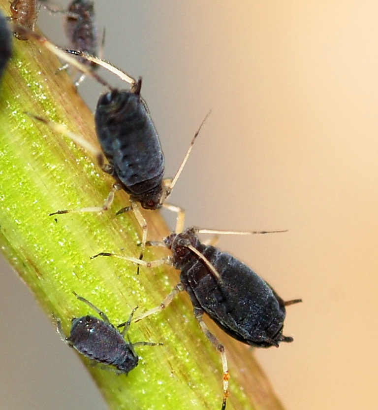 Black Bean Aphids (Aphis fabae), near Lisbon, Portugal.